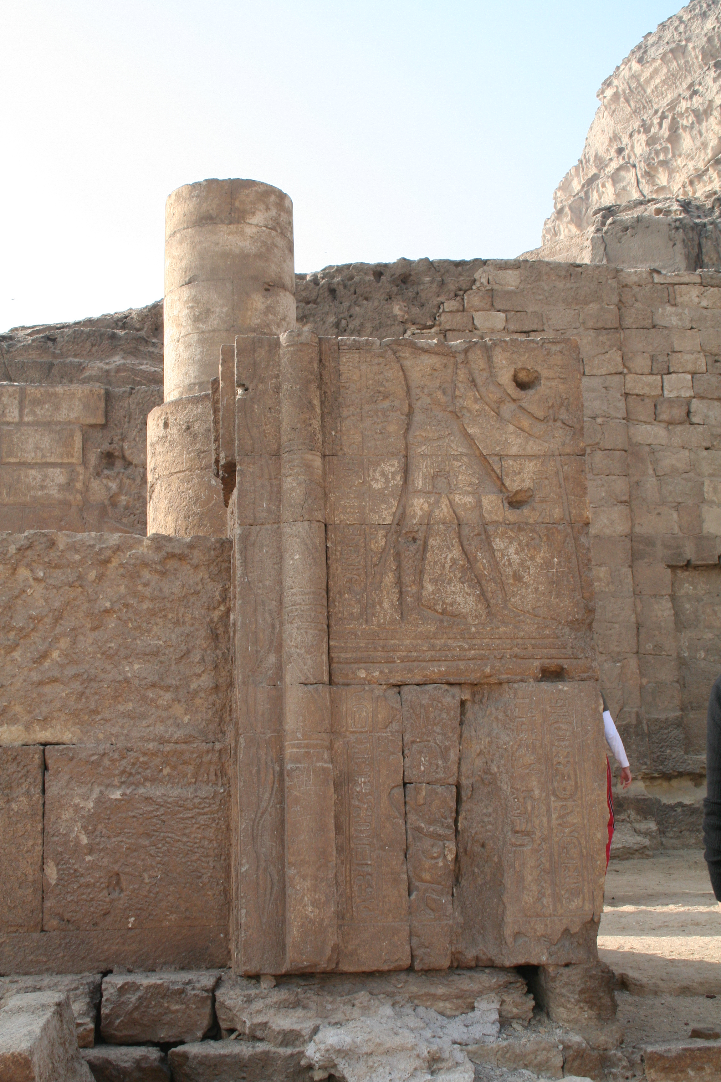 Tihna el-Gebel